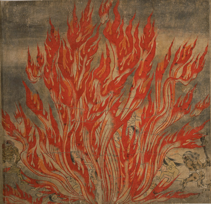 Scroll of the hell (Jigoku-Zoushi), Tokyo National Museum